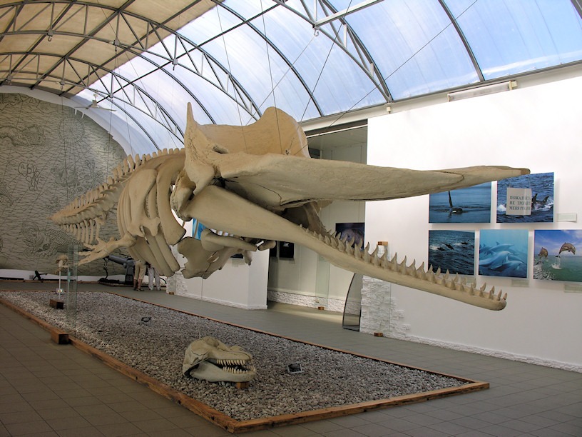 "Baltic" sperm whale in the Museum of the World Ocean, Kalinigrad.